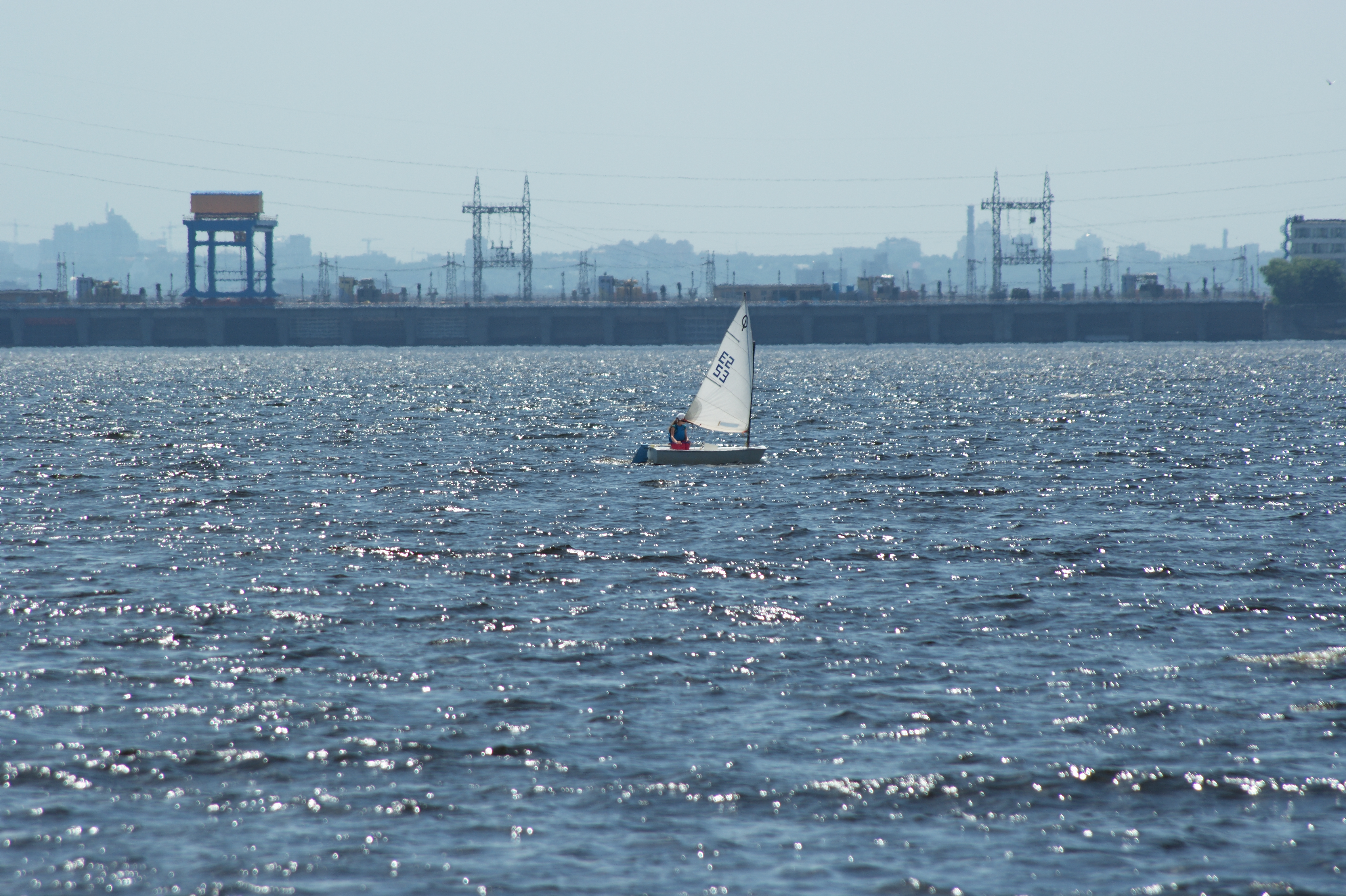 Girl Sails Optimist Dinghy in Kiev Reservoir